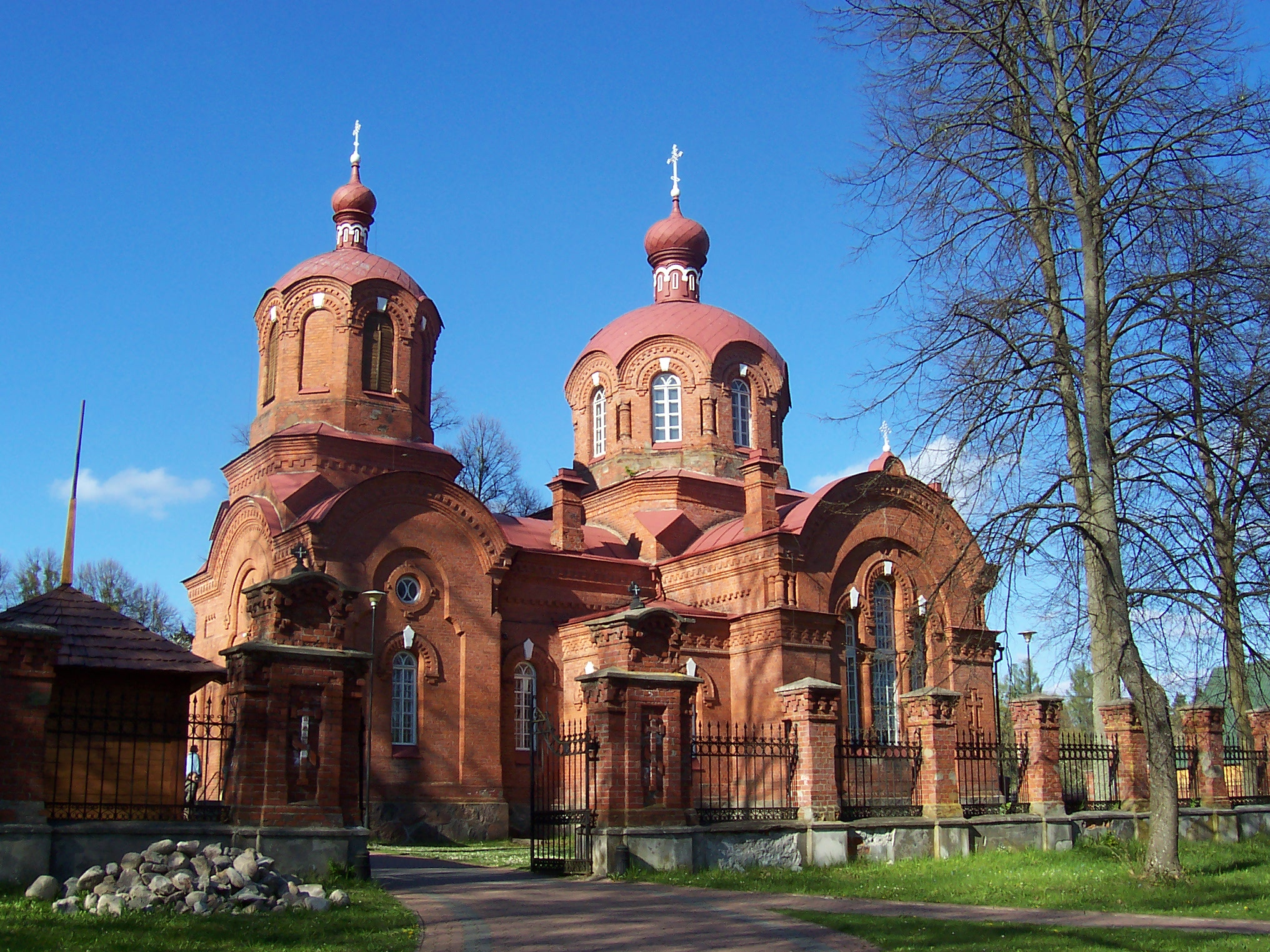 Orthodoxic church in Białowieża